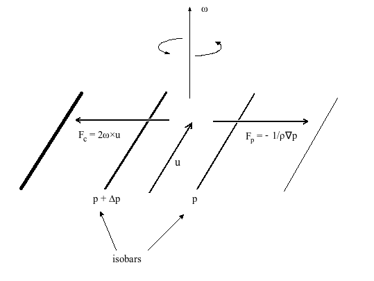 Geostrophic balance